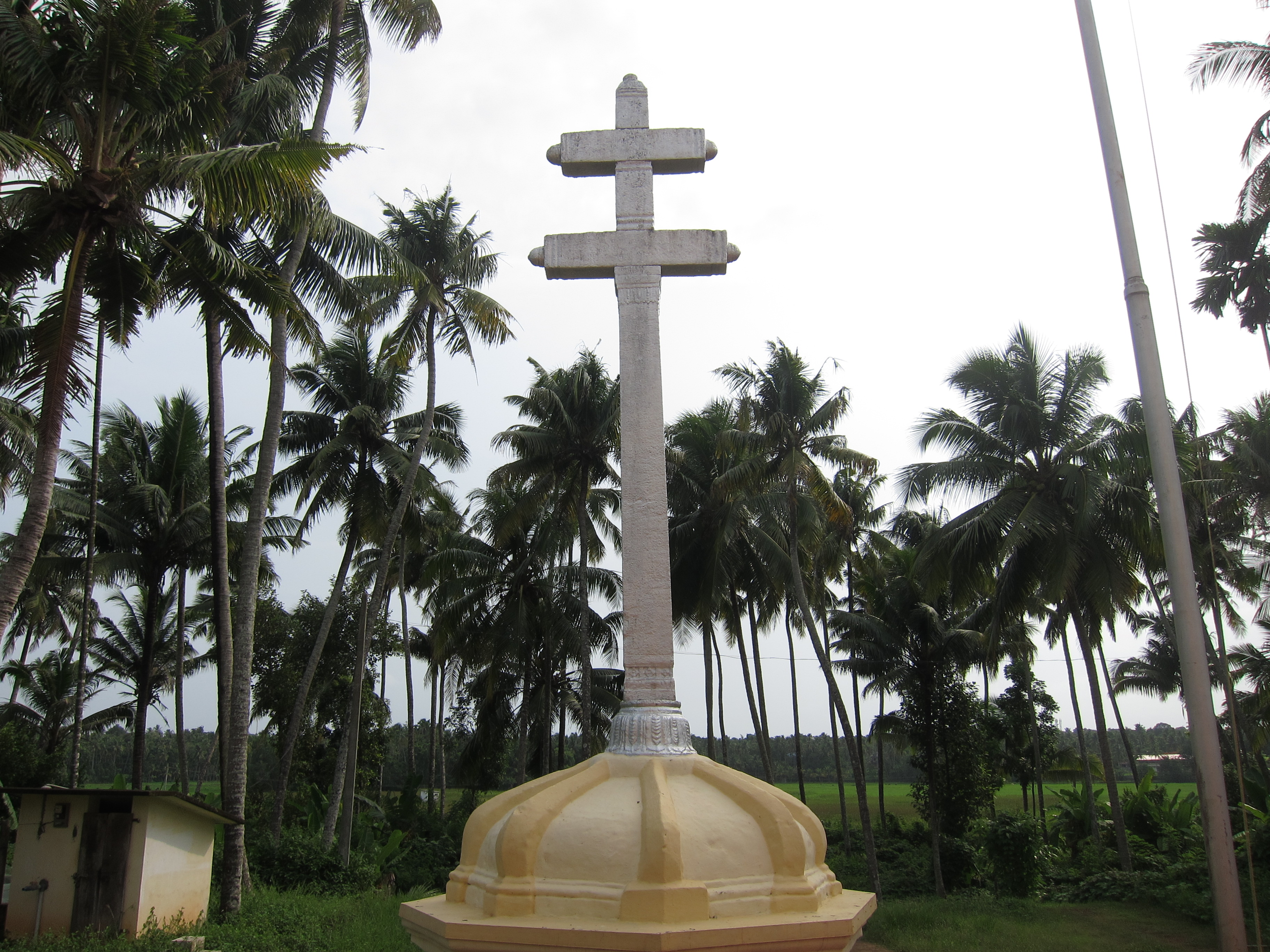 Puthenchira Forane Church - Cross